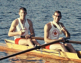 Canadian pair George Hungerford (left) and Roger Jackson pose for photographs with their gold medals after the Men's Coxless Pair Final at Toda Boat Course during the Tokyo Olympic on October 15, 1964 in Toda, Saitama, Japan